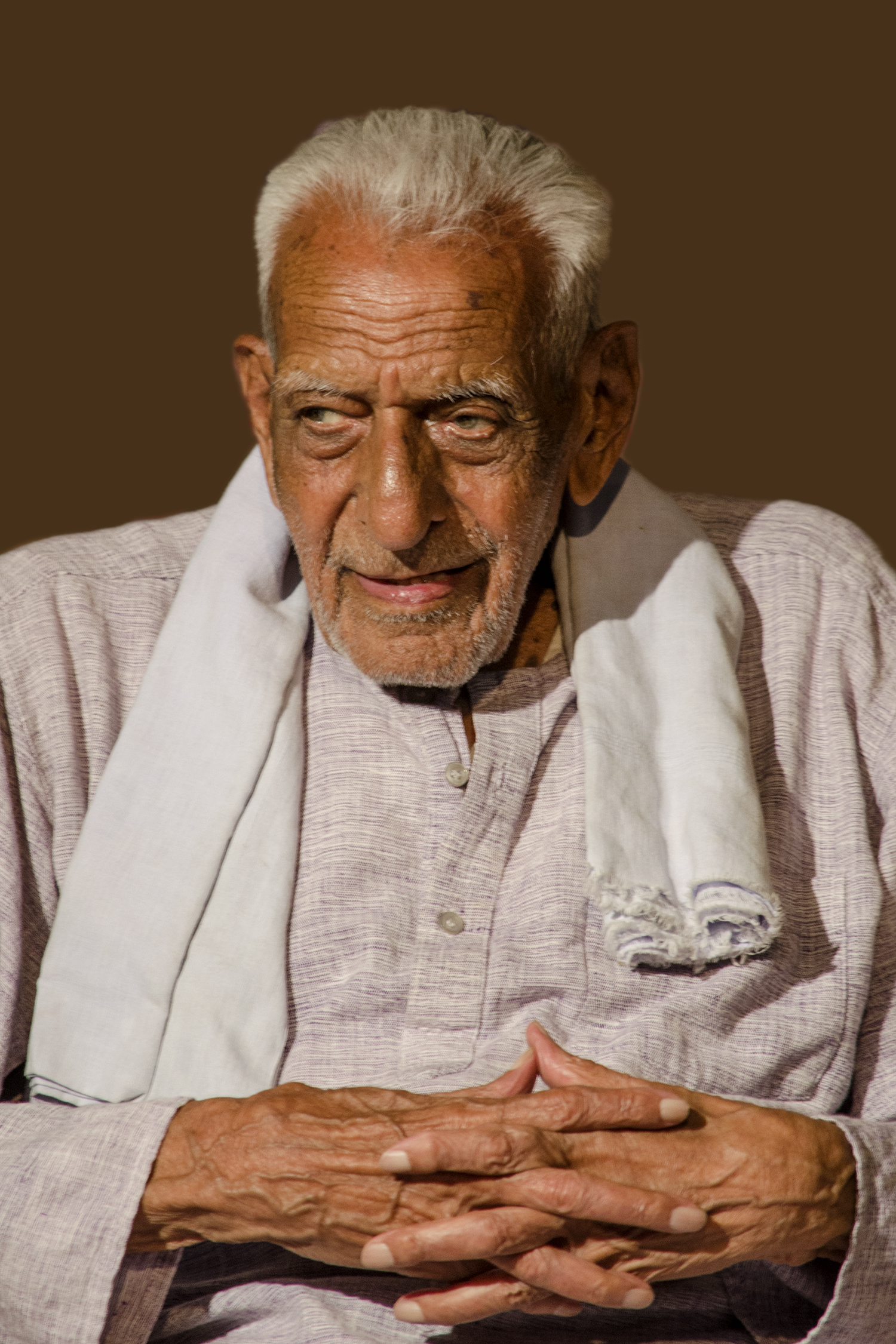 H. S. Doreswamy